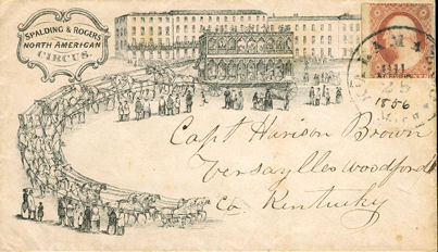 The Appolonicon drawn by 40 horses for Spalding & Rogers North American Circus - depicted on a postally used envelope (1856)